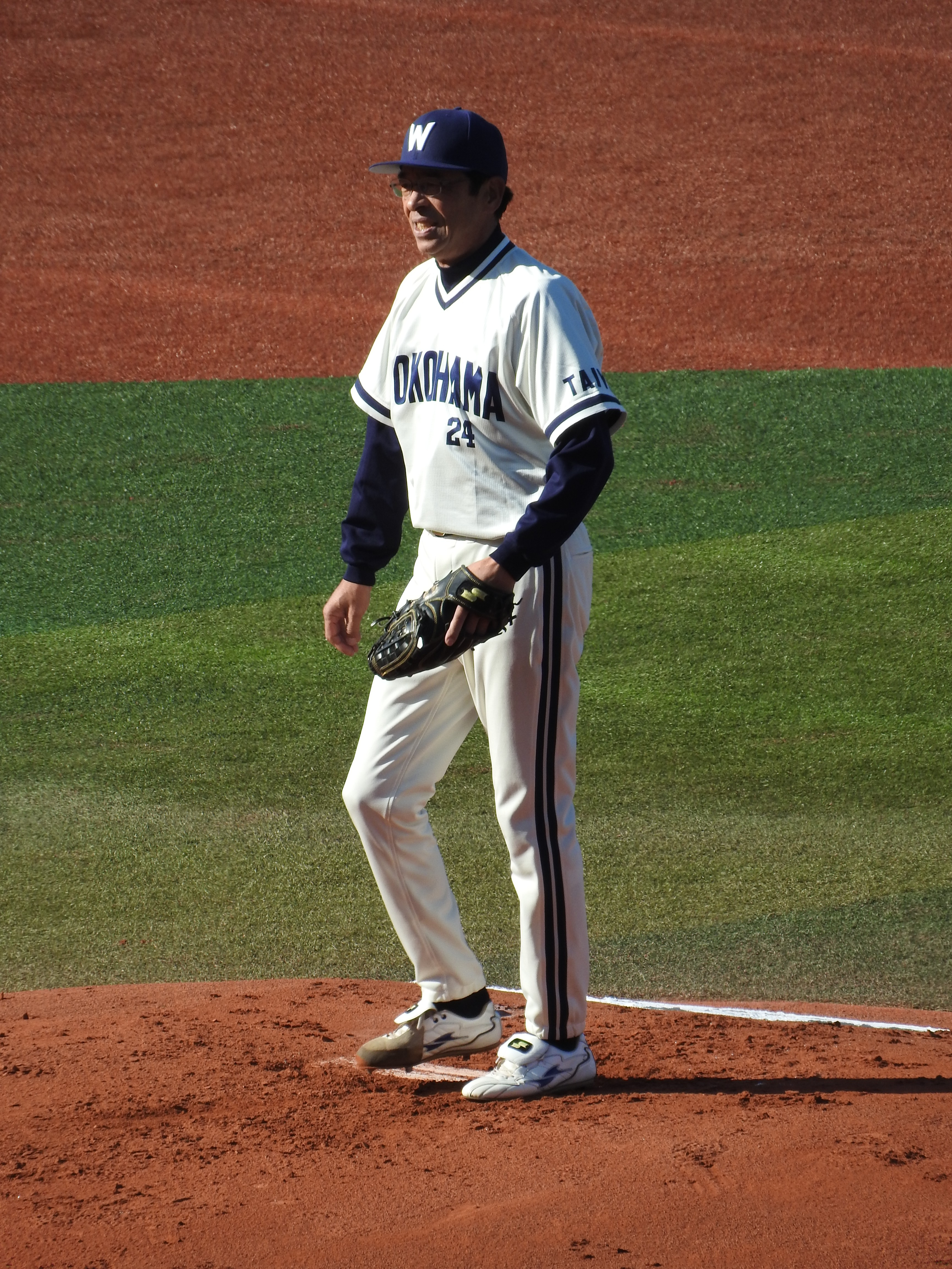 baseball player